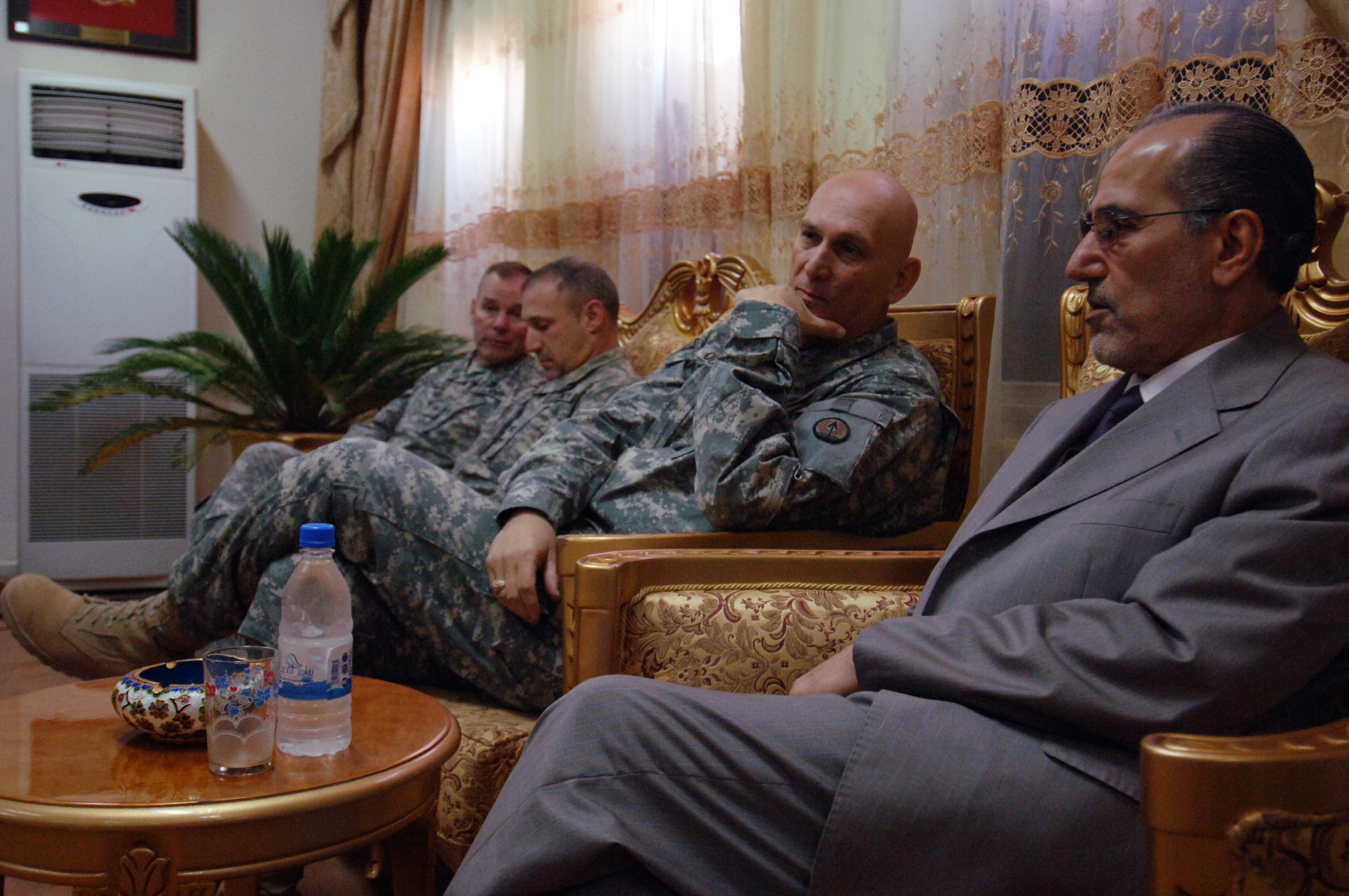 General Odierno and the Iraqi National Security Advisor, Dr. Muwafaq Bakr al-Rubai, discuss details about Iraq's future, November 29, 2007, Mahmudiyah, Iraq. (Photo by Luke Thornberry)